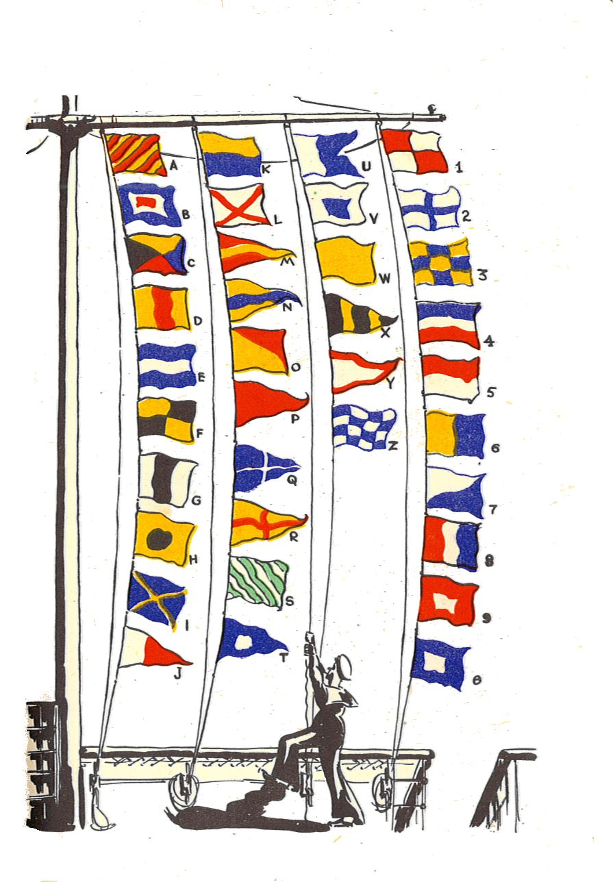 Naval alphabetical and numeral flags (Seaman's Pocket-Book, 1943).jpg